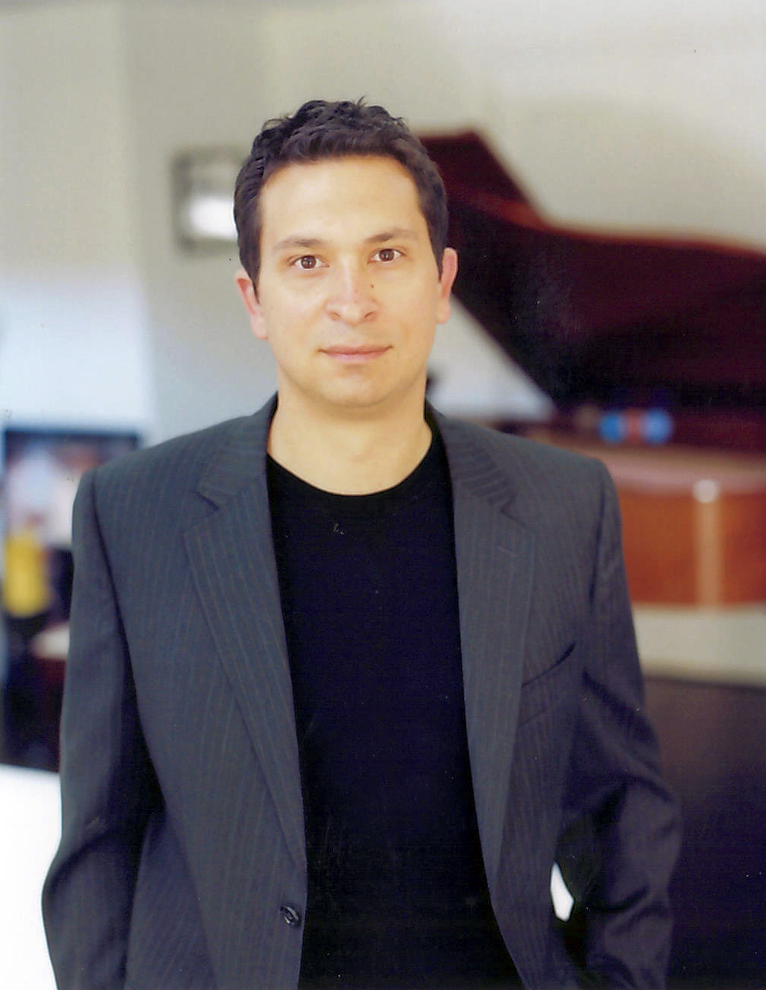 Jim Dooley